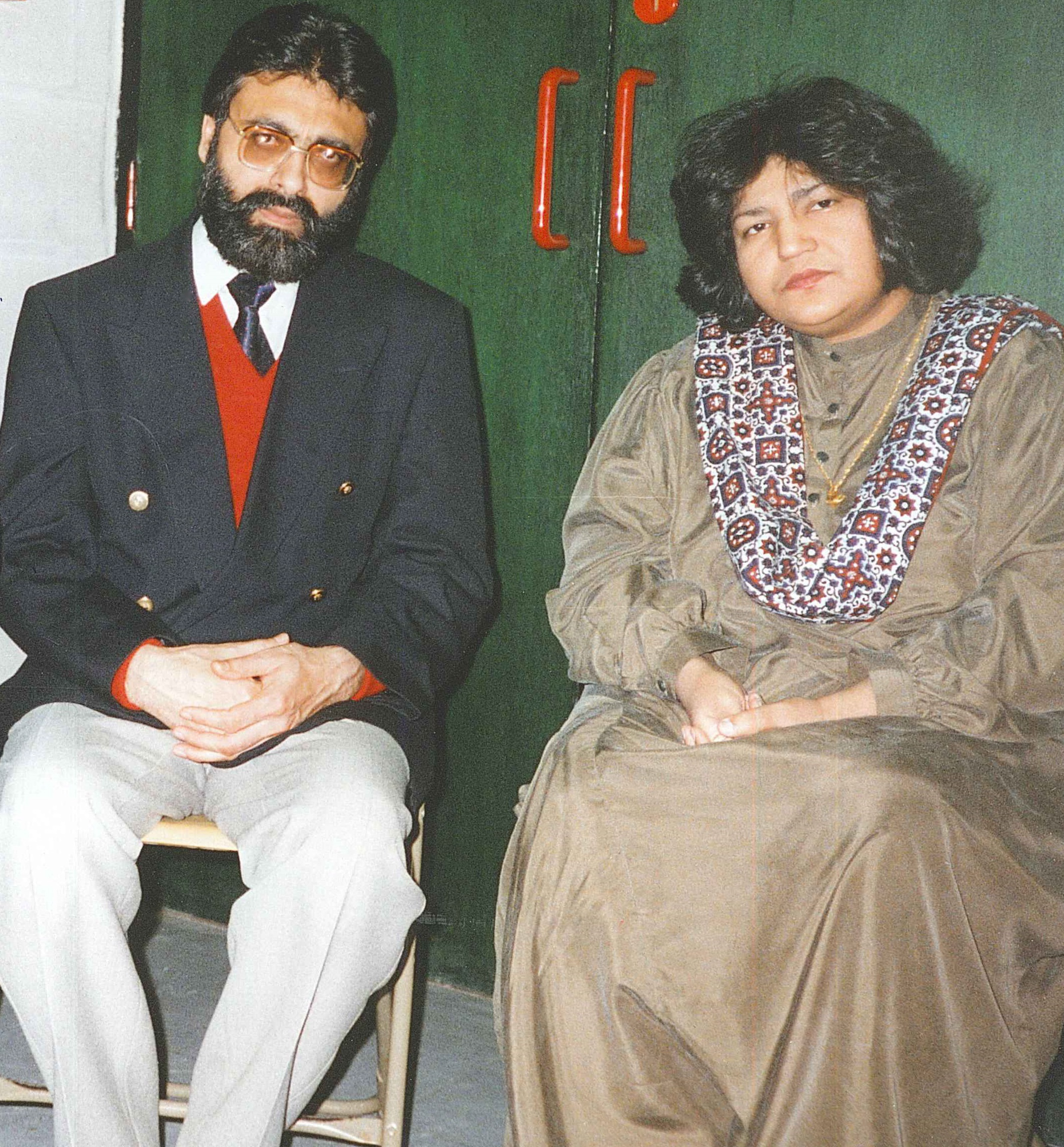 Fazal Malik Akif & Abida Parveen in Manchester on 4th December 1994